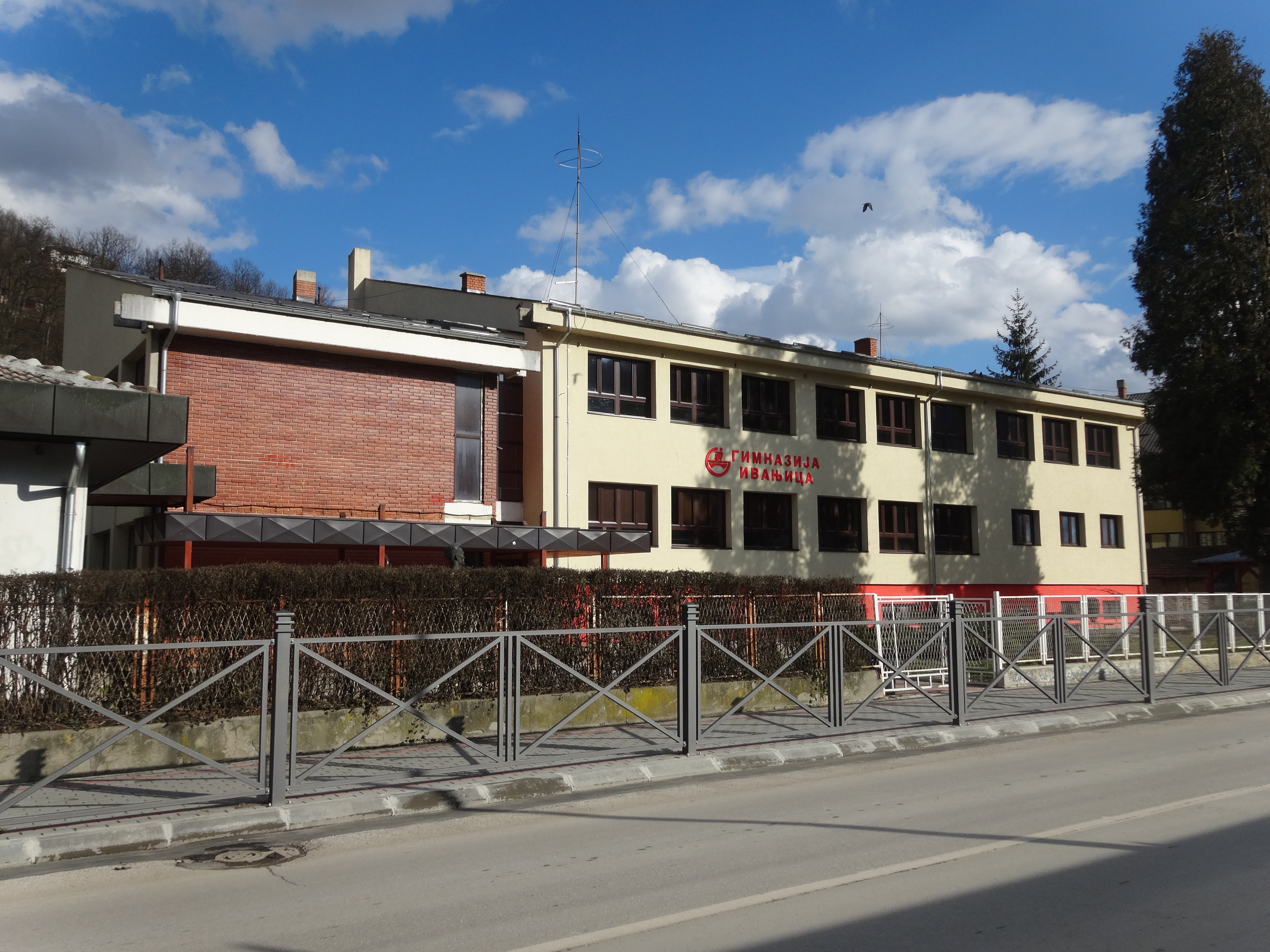 WMRS Education program in Gymnasium Ivanjica.